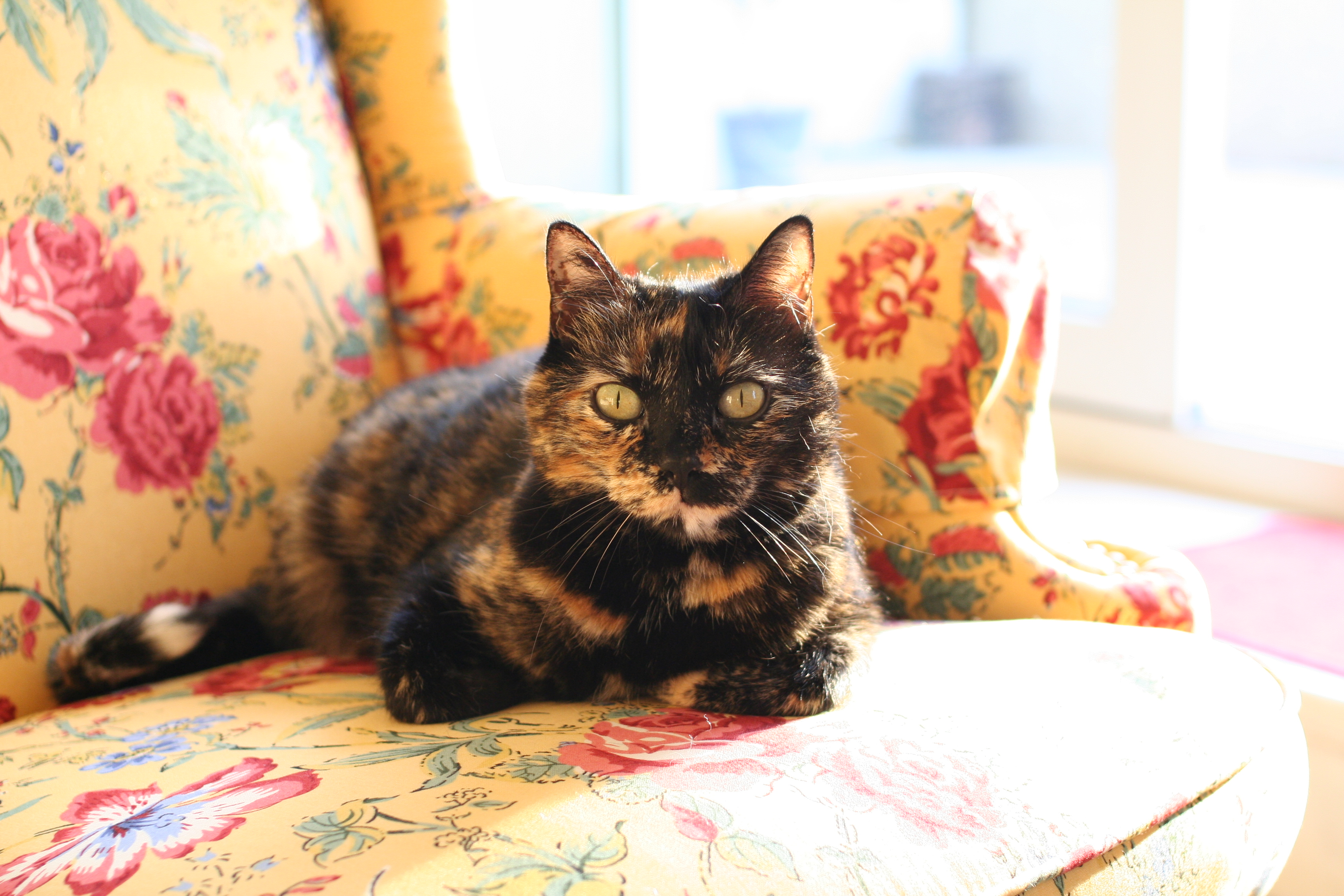 A female domestic shorthair tortoiseshell cat named Ira, eight years old.